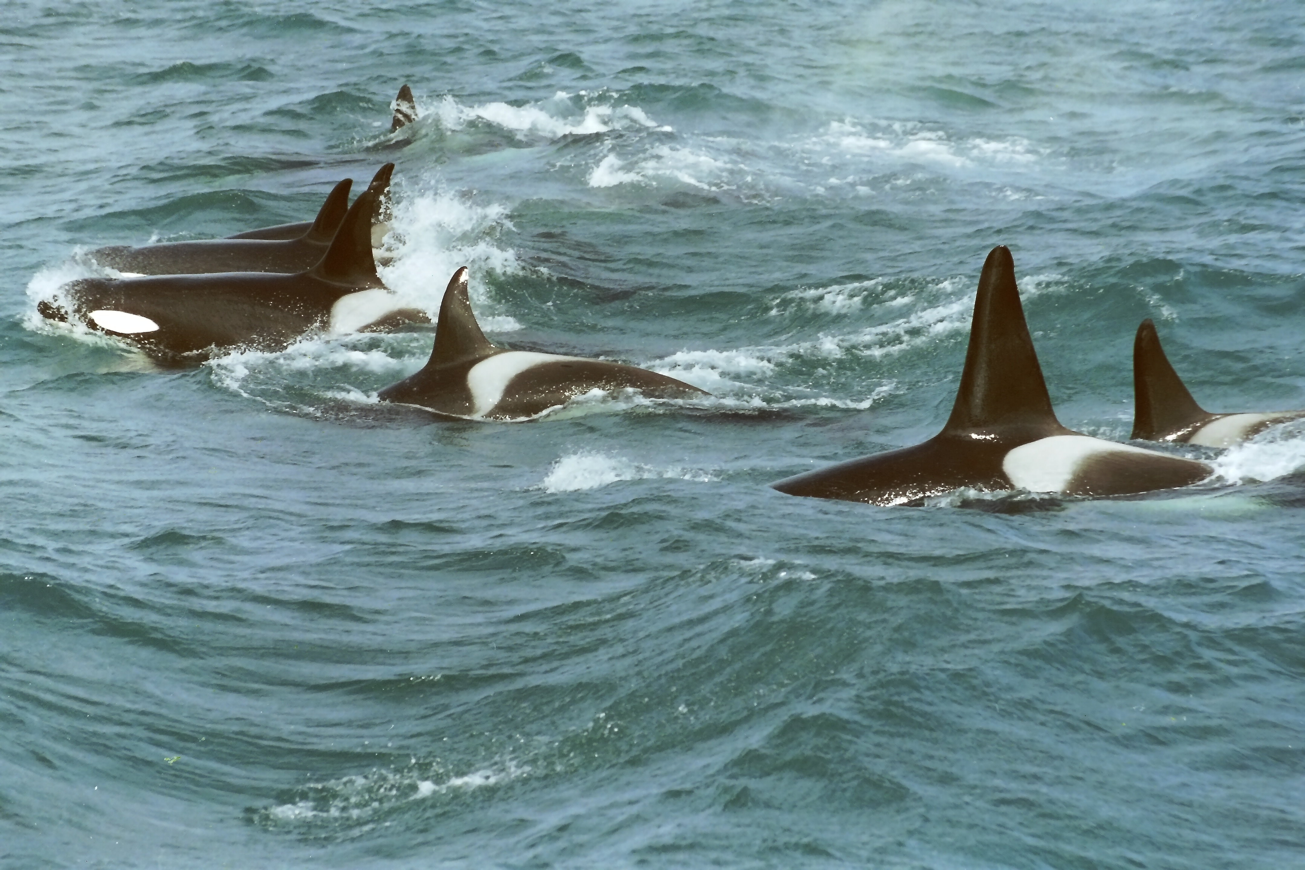 Hunting orcas in the Norwegian Sea near Andenes, Vesterålen